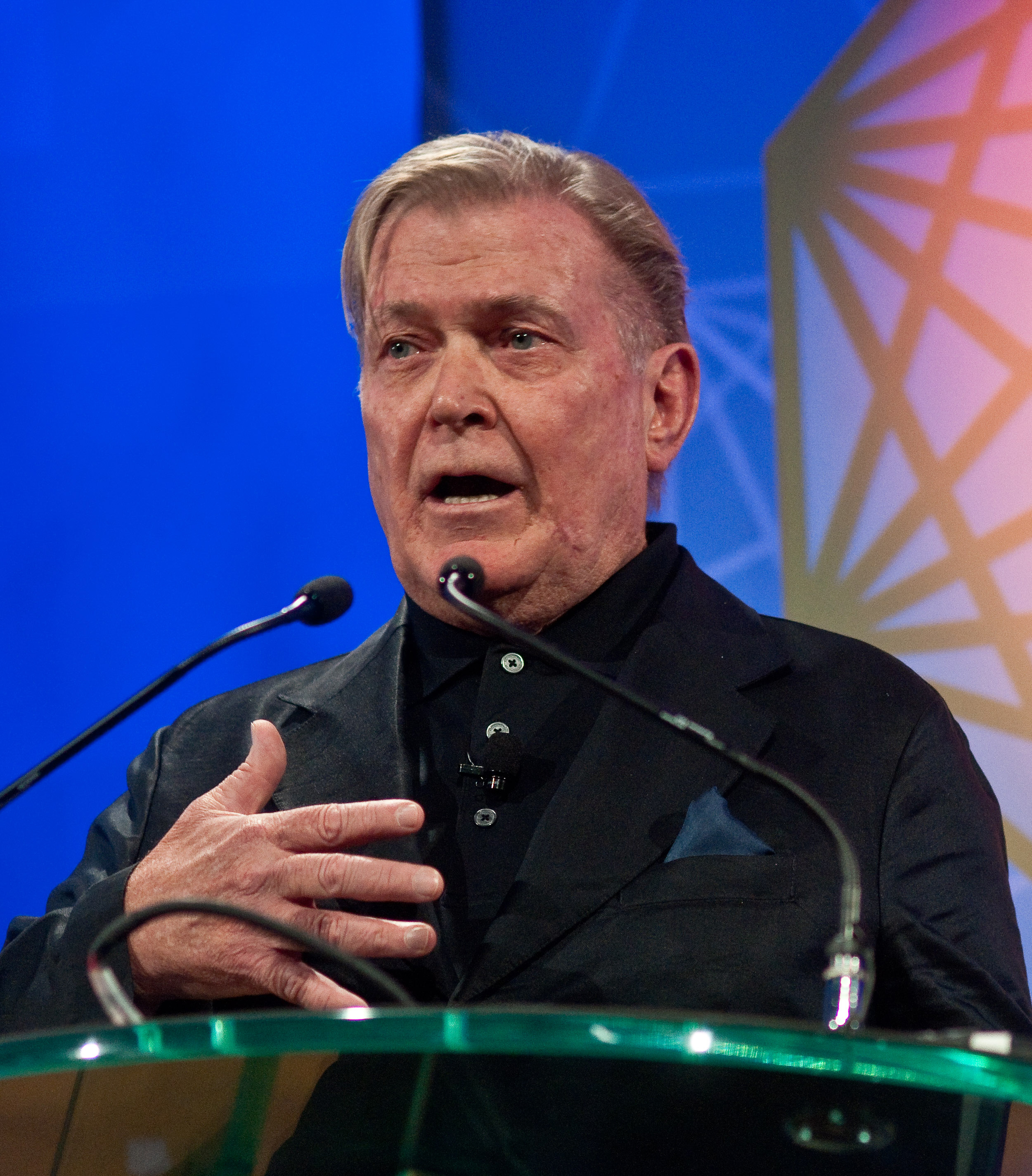 July 20th, 2011--Aspen, CO, USA Terry McDonell, editor of Sports Illustrated Group, gives a demo at Fortune Brainstorm TECH at the Aspen Institute Campus. Photograph by Kevin Moloney/Fortune Brainstorm TECH